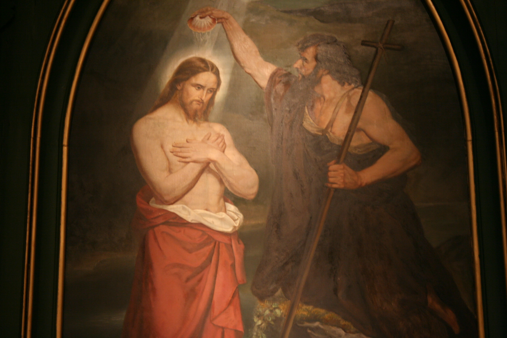 Skoger church, Drammen, Norway, "Baptism of Christ". The painting is a replica of Adolph Tidemand «Christi Daab» (the baptism of Jesus Christ) in Trefoldighetskirken in Oslo. Replica by Christen Brun.